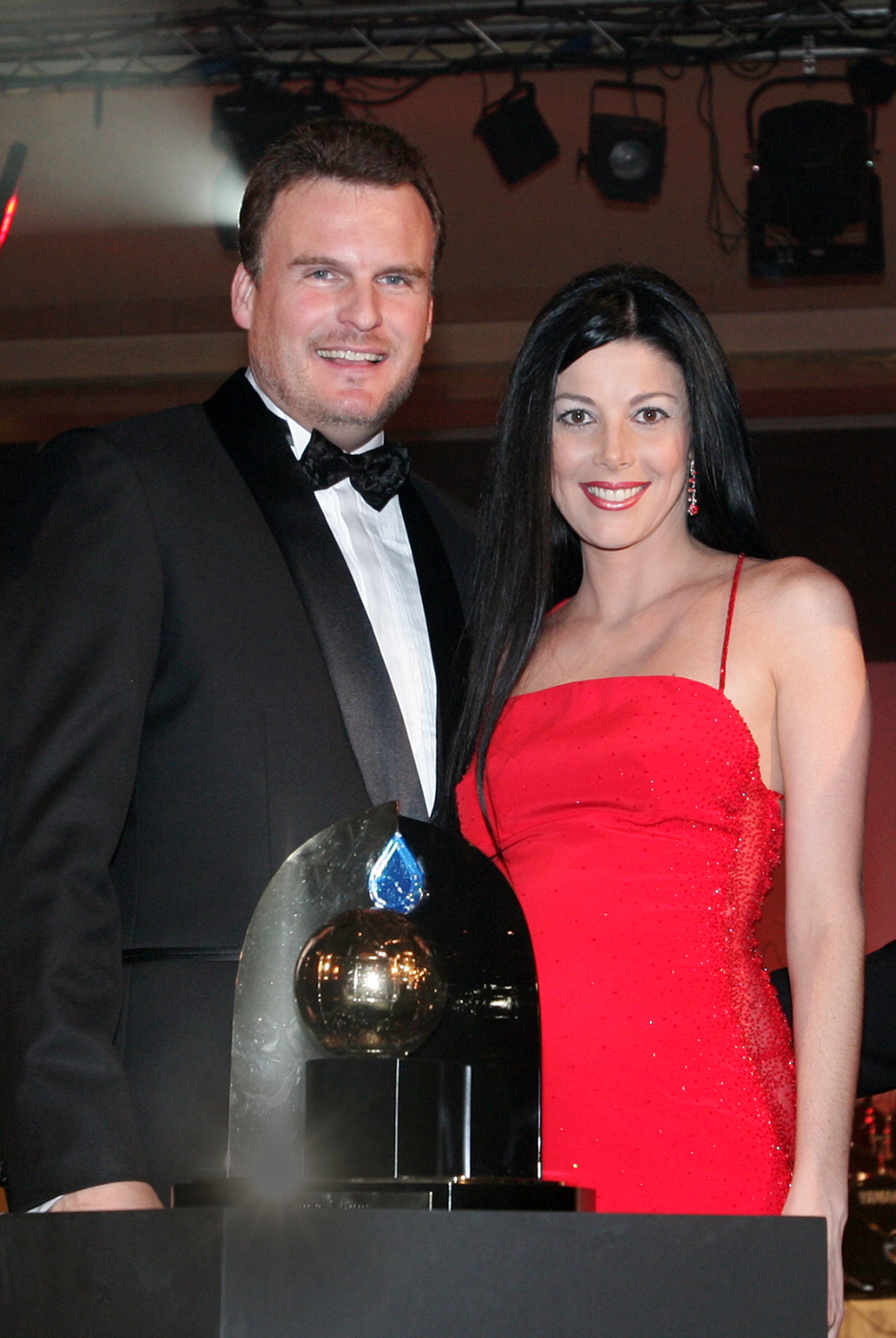 Fernanda Alves Schmelz and her husband Matthias Schmelz, both self-made millionaires